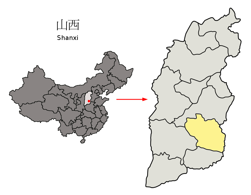 Location of Changzhi Prefecture (yellow) within Shanxi Province of China Map drawn in december 2007 using various sources, mainly : Shanxi Province administrative regions GIS data: 1:1M, County level, 1990 Shanxi Counties map from